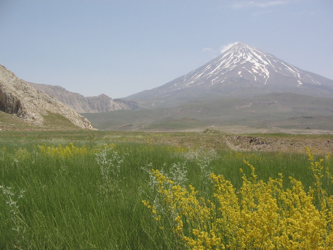 DAMAVAND mount in Iran Near the Tehran